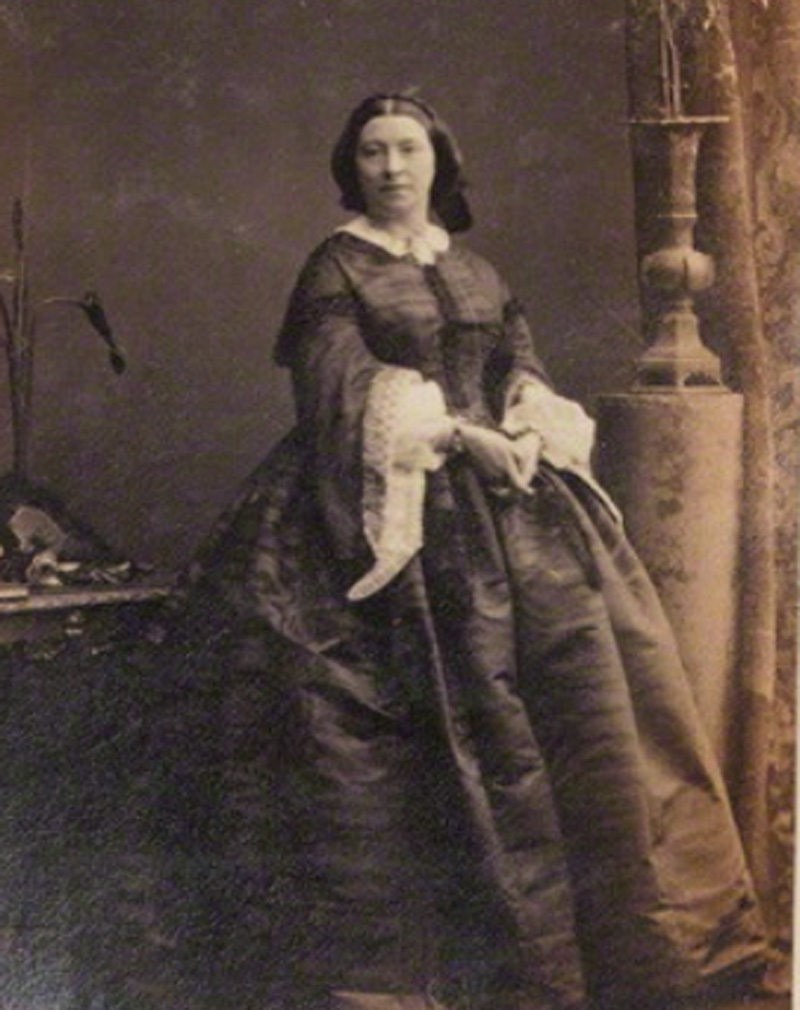 Maria Bovill 1861 of Worplesdon Place, Surrey